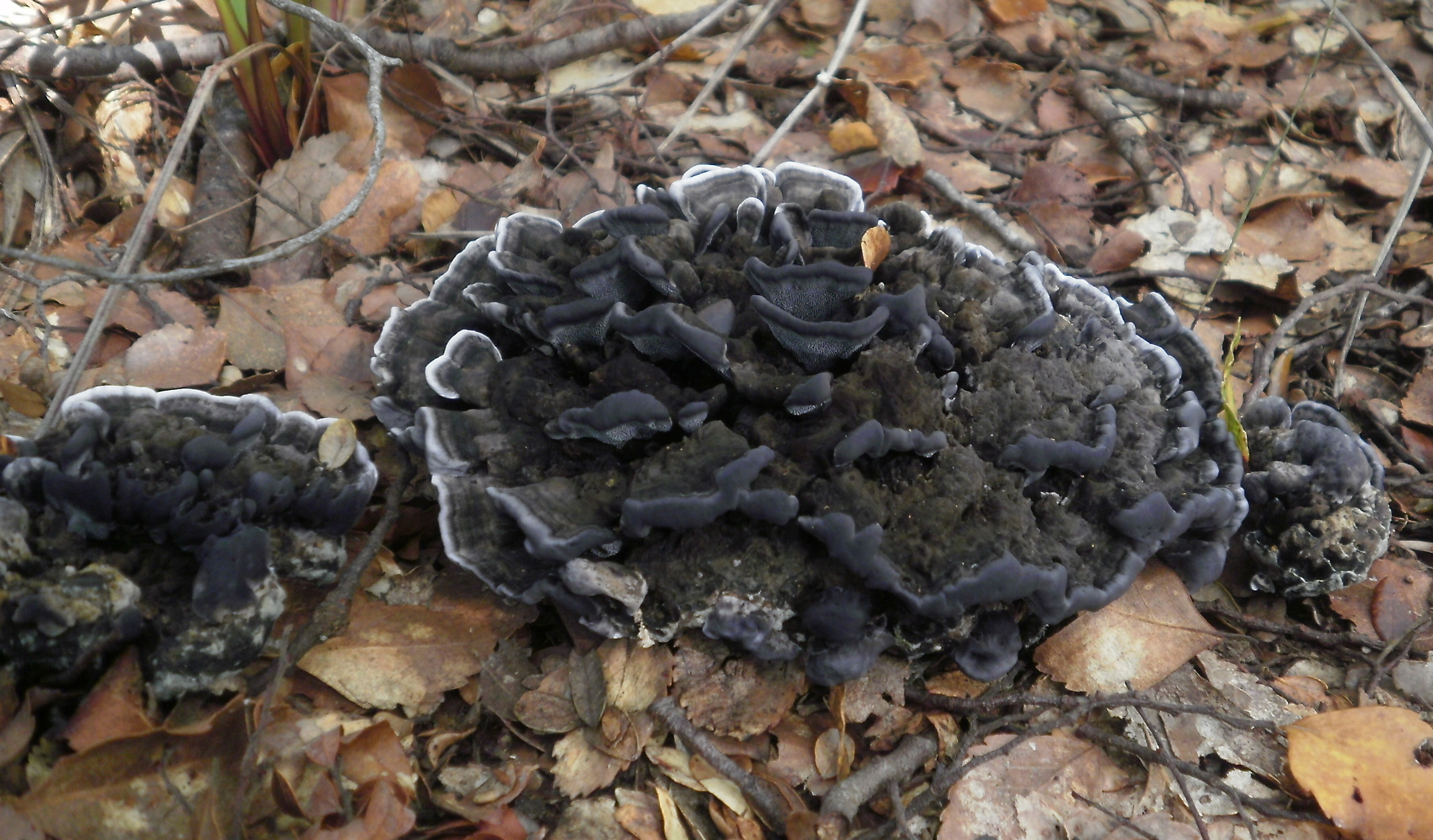 Phellodon sinclairii, on floor of beech forest, Upper Hutt, New Zealand.